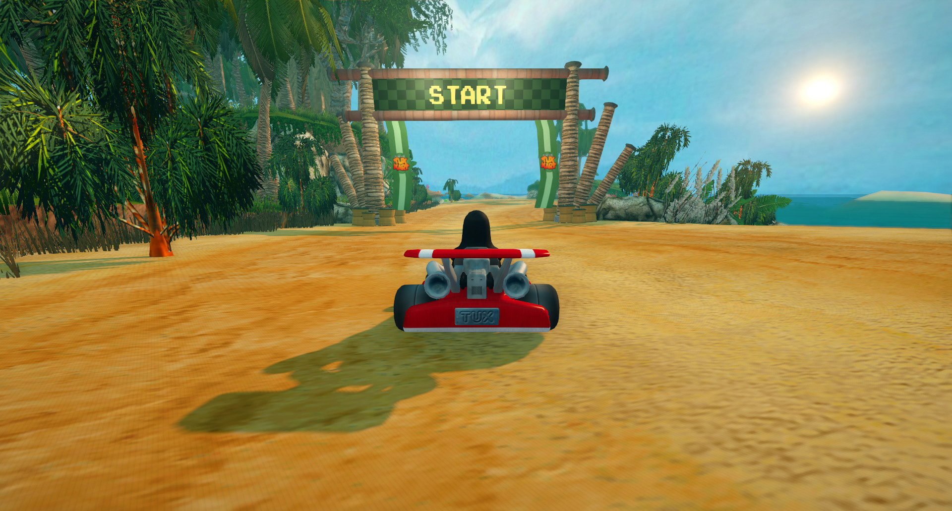 Screenshot of the Open Source racing game SuperTuxKart